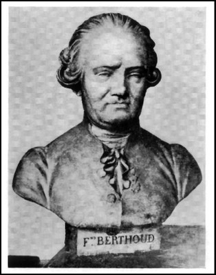 (PD by age)